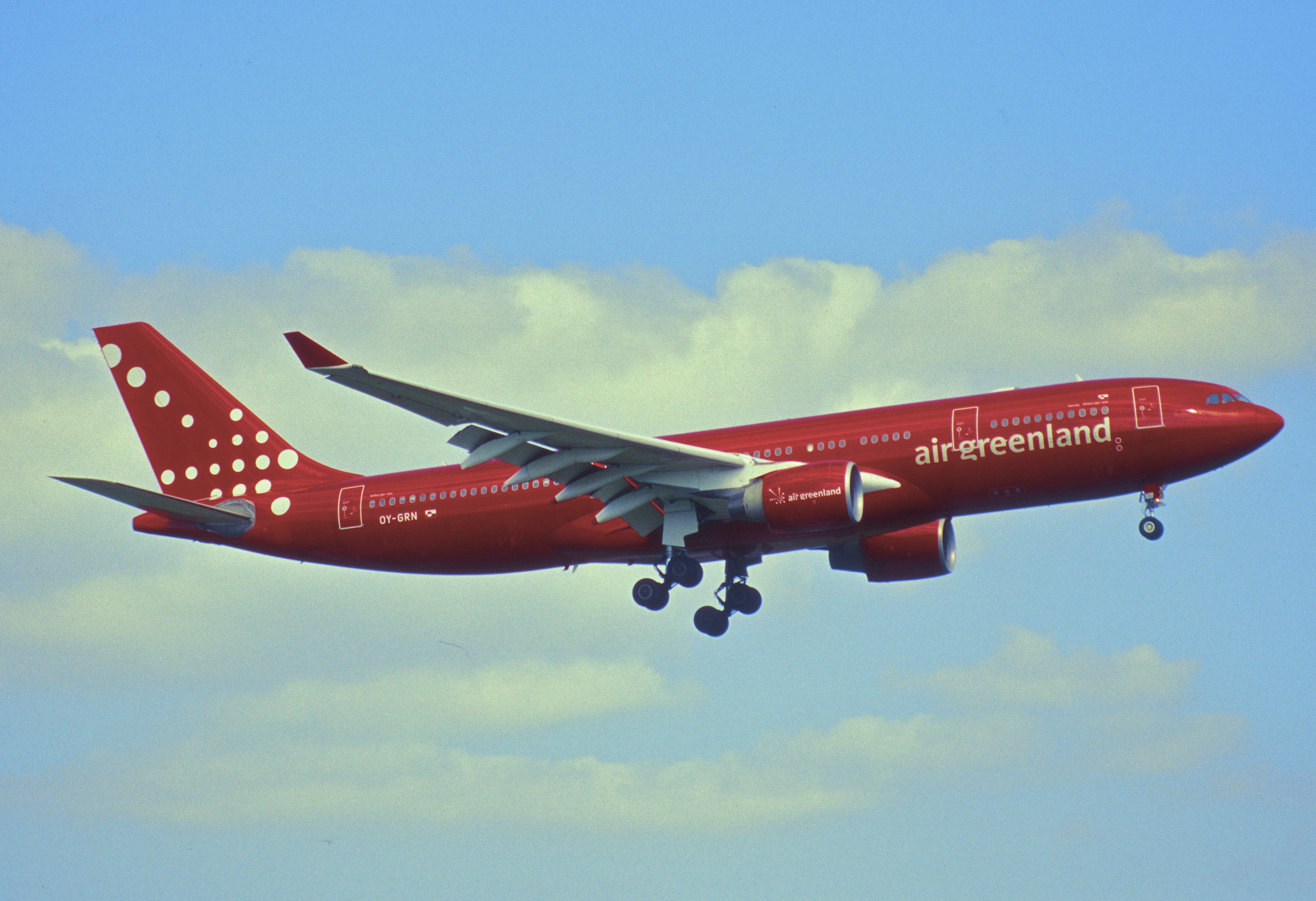 258ac - Air Greenland Airbus A330-223; OY-GRN@ZRH;14.09.2003